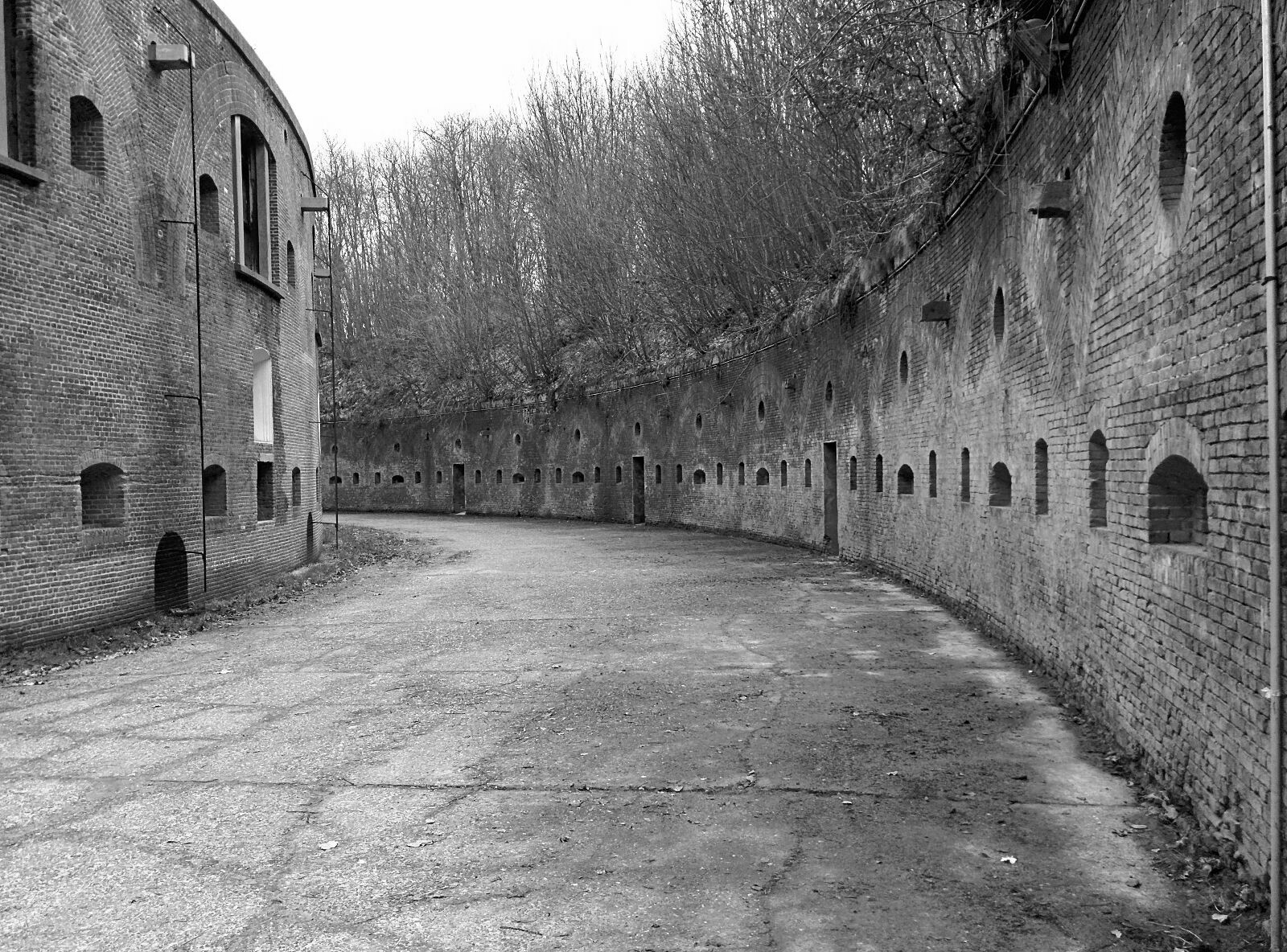 Fort 8, Hoboken, Belgium